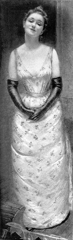 Portrait of French music-hall singer and actress Yvette Guilbert (1865-1944) by André Sinet (1867-1923)